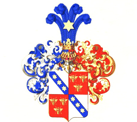 Coat of Arms of Tal family